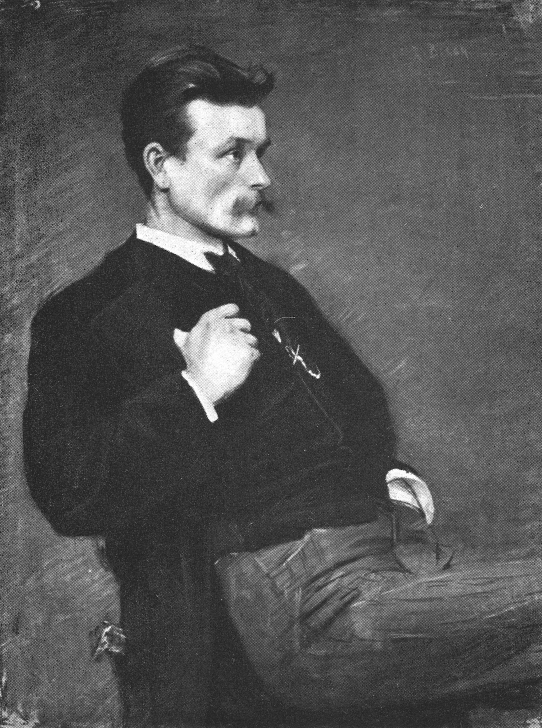 Theodor Lundberg (1852-1926), Swedish sculptor and professor.